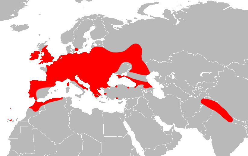 Range map of Nyctalus leisleri.